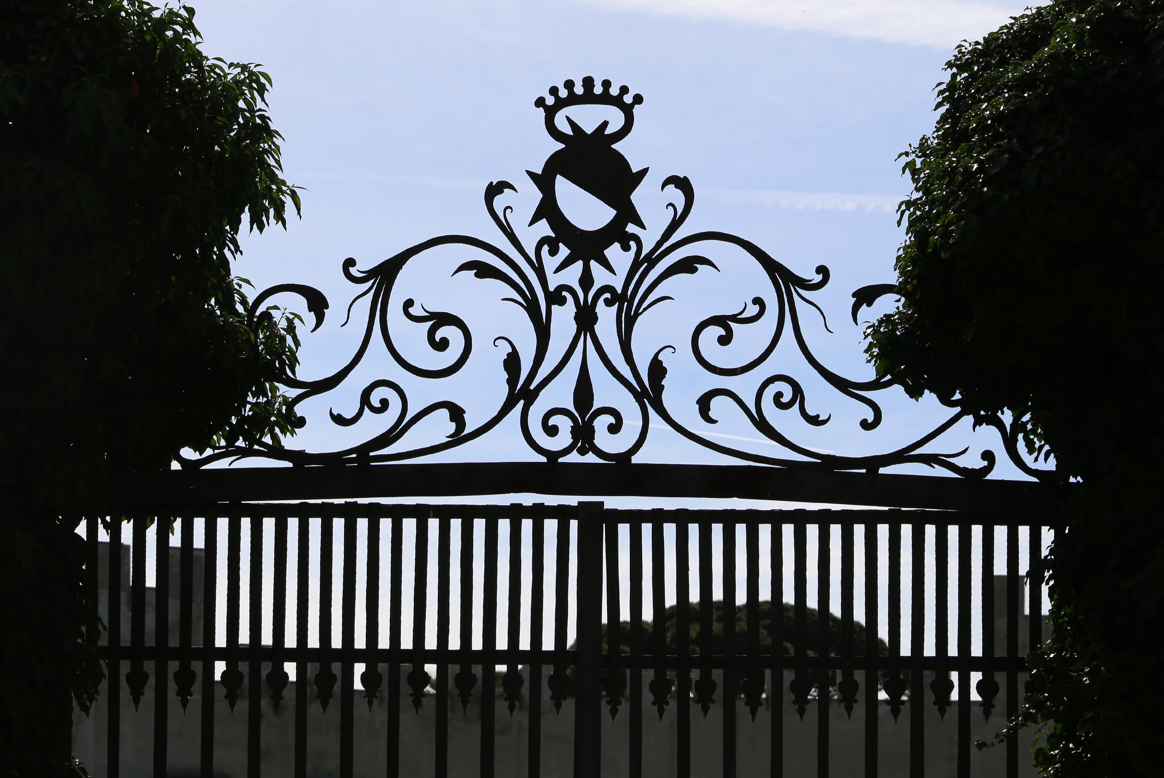 Castello di Bisarno